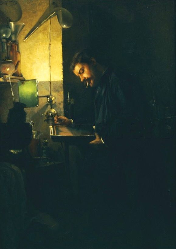 The Photographer